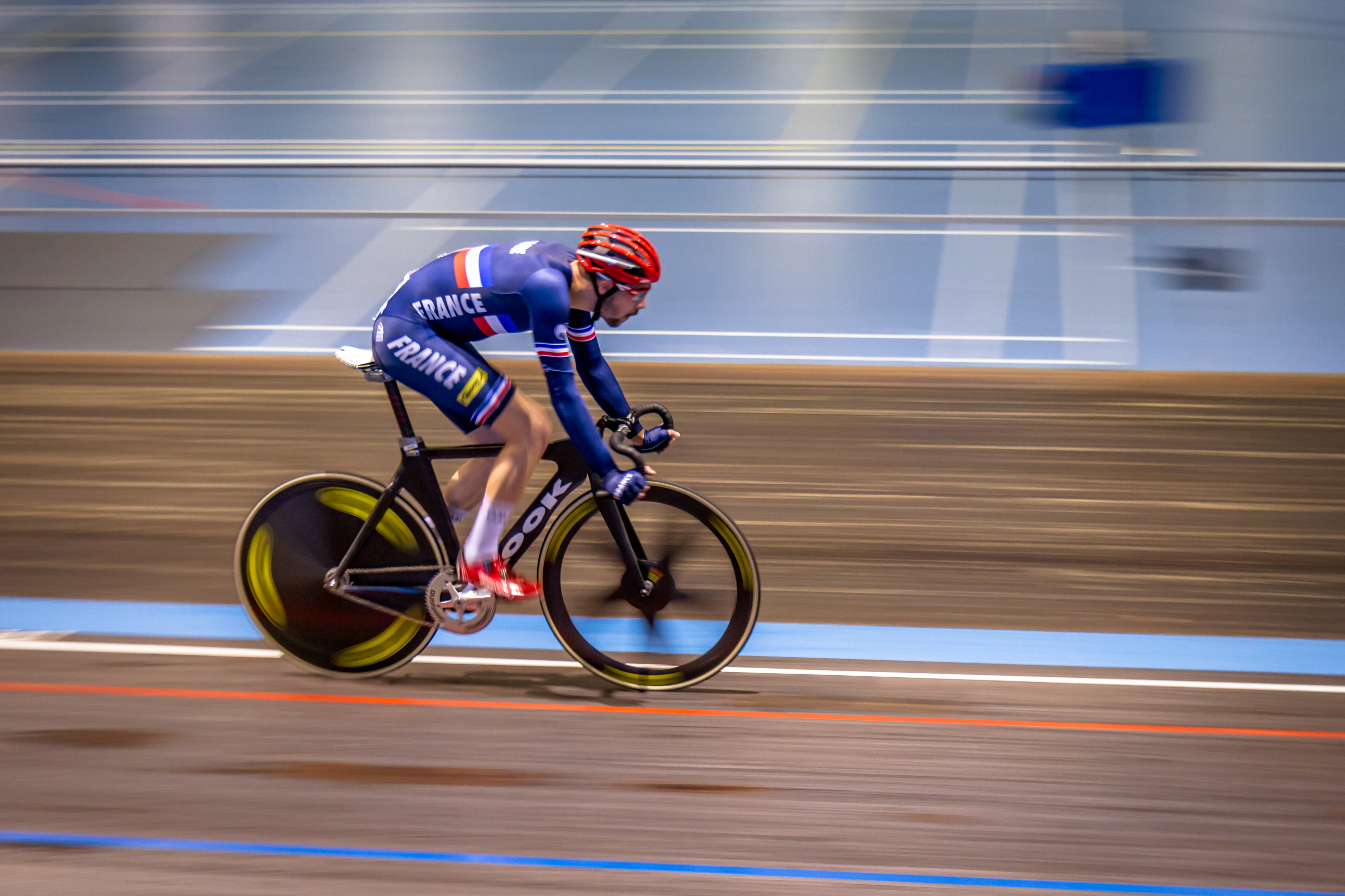 Thomas Denis (FRA) Team France. Men's points race. International Belgian X-mas Meeting, Vlaams Wielercentrum Eddy Merckx, Ghent, Belgium, 2015.